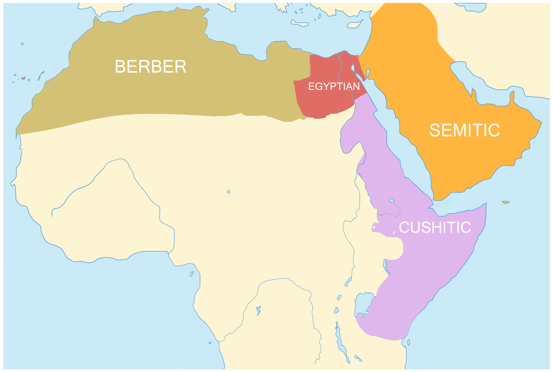 Afroasiatic languages ca. 500 BC using data gathered from Cohen (M.) 1924